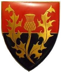 SADF 7 Medium Regiment Emblem